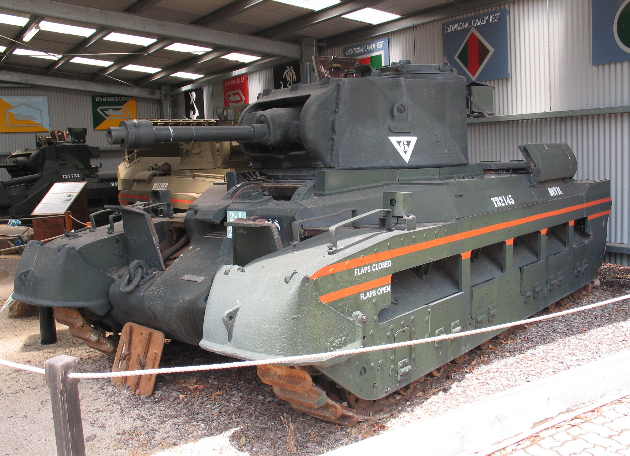 Infantry Tank Mk II Matilda in the Matilda Frog flamethrower variant in Royal Australian Armoured Corps Tank Museum, Puckapunyal, Victoria, Australia.